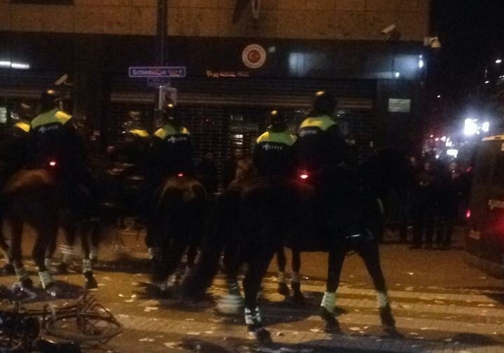 Mounted Police charging Turkish demonstrators after a gathering in front of the Consulate of Turkey at Rotterdam, The Netherlands, during the night of 11/12 March 2017.